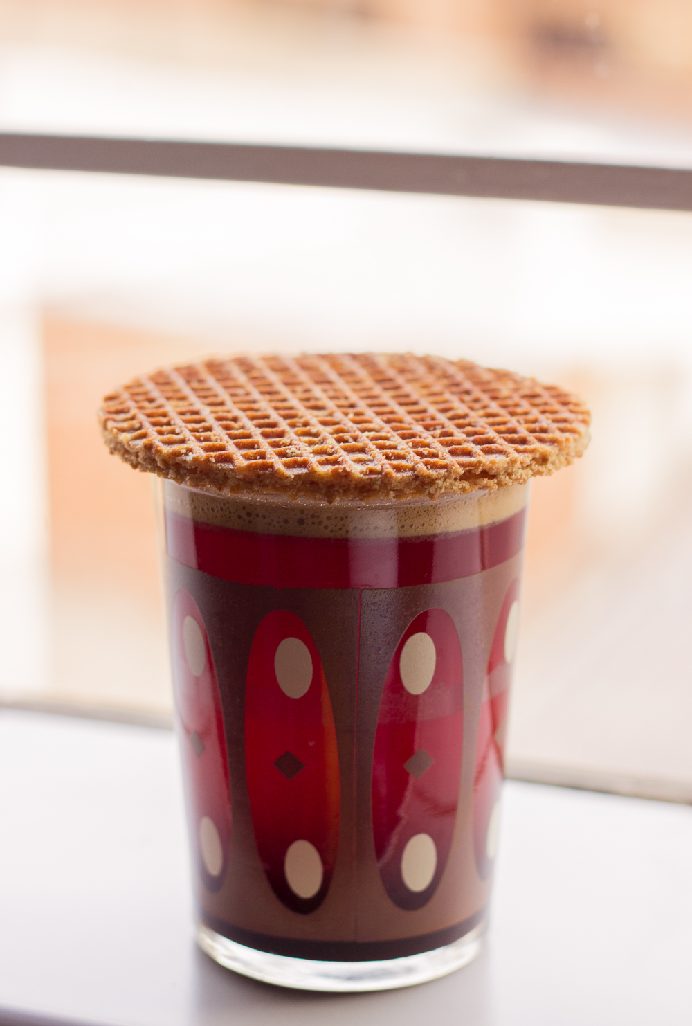 Place over a cup of hot coffee to warm.